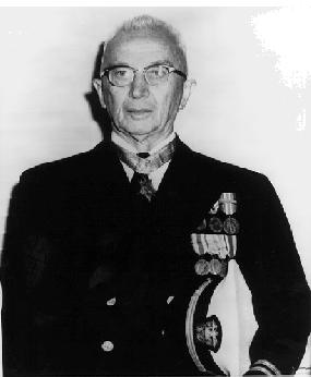 U.S. Navy sailor William Zuiderveld, wearing the Medal of Honor he earned during the U.S. occupation of Veracruz, Mexico.